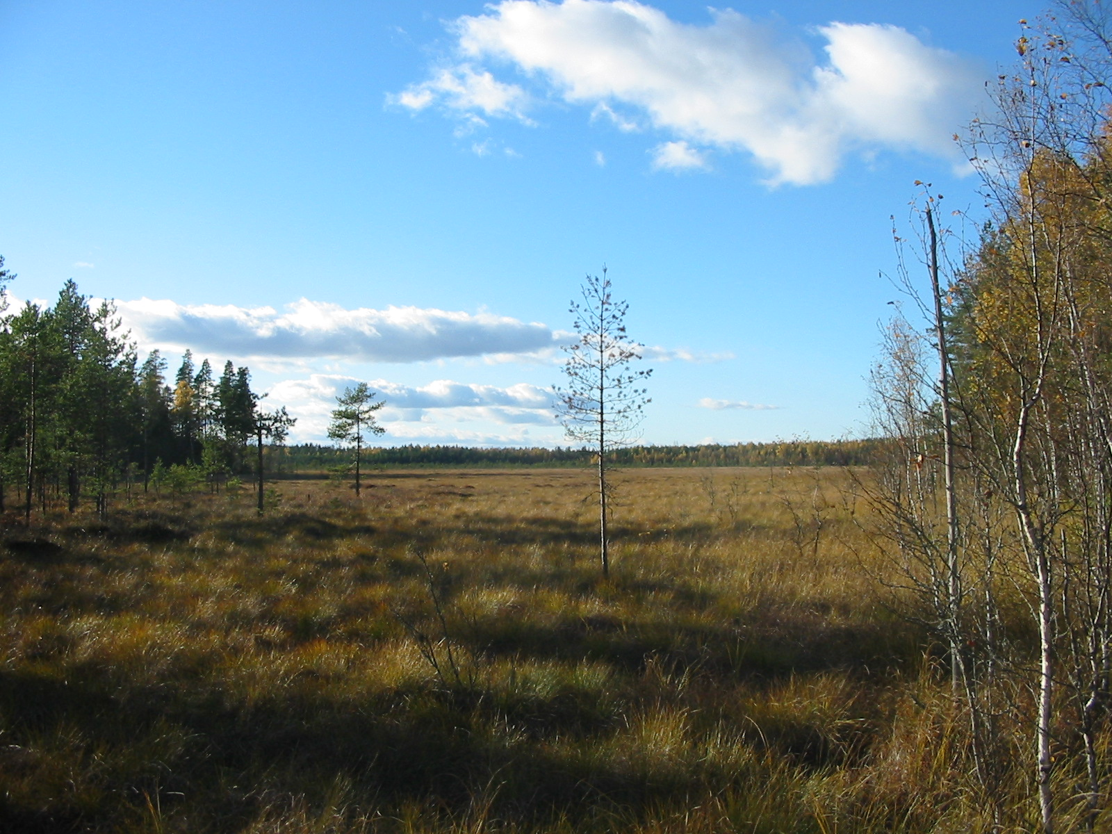 Eksyssuo near Katavasaari in Mellilä, Loimaa, Finland